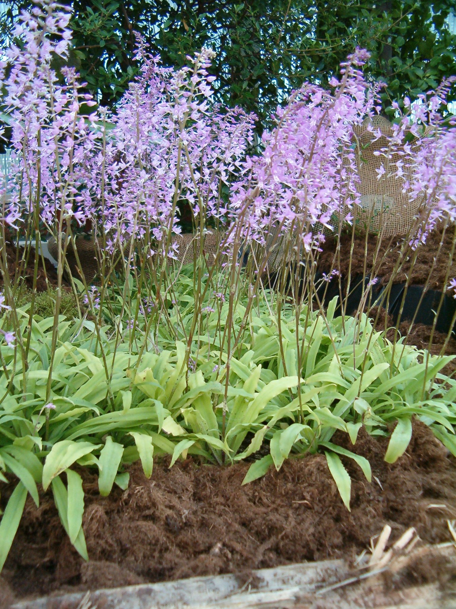 Stenoglottis longifolia, Habitus and Flowers Location: Botanical Gardens Berlin - Orchid Exhibition